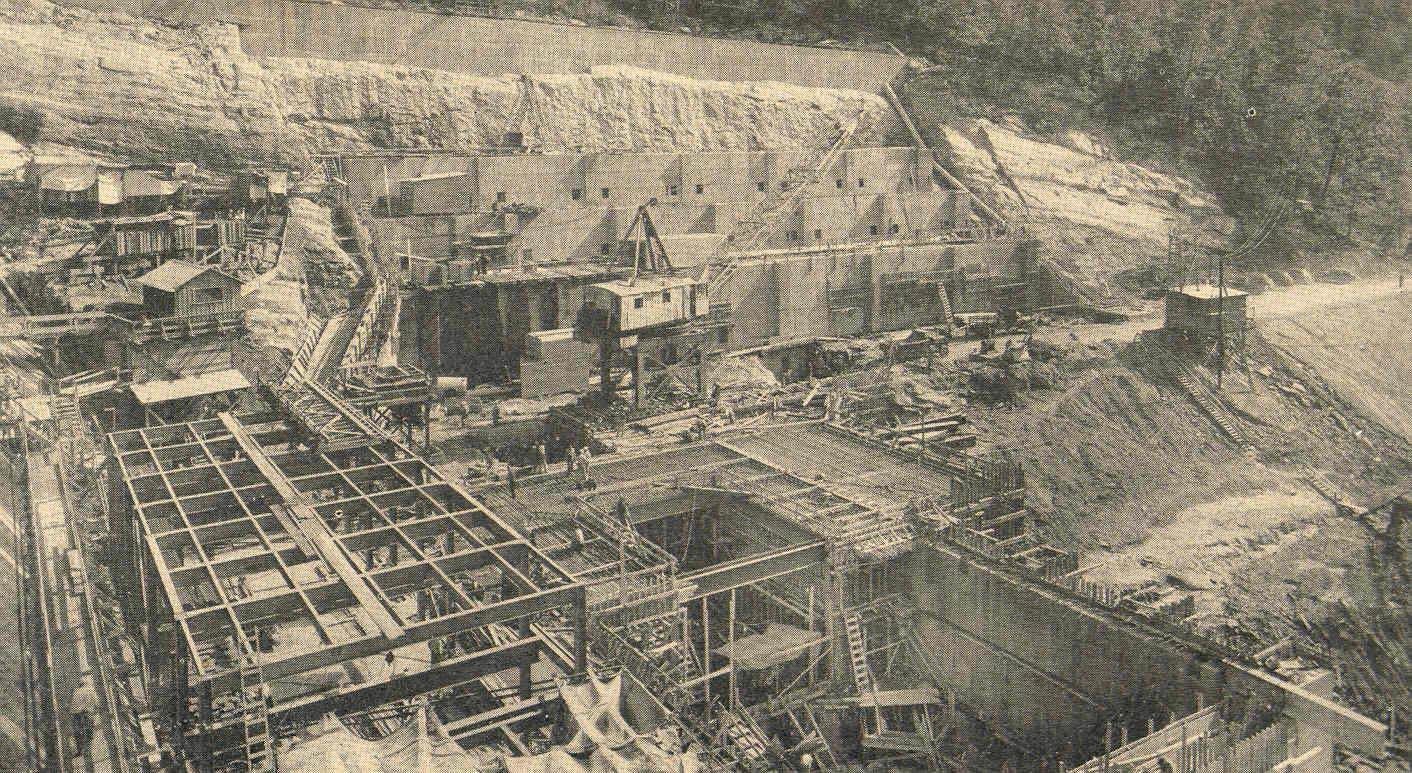 The construction of the switchyard and powerhouse for TVA's Hiwassee Dam, on the Hiwassee River in Cherokee County, North Carolina, USA.